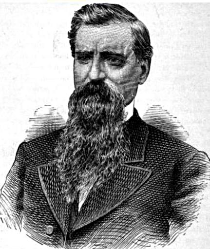 Theron Moses Rice, US Representative from Missouri